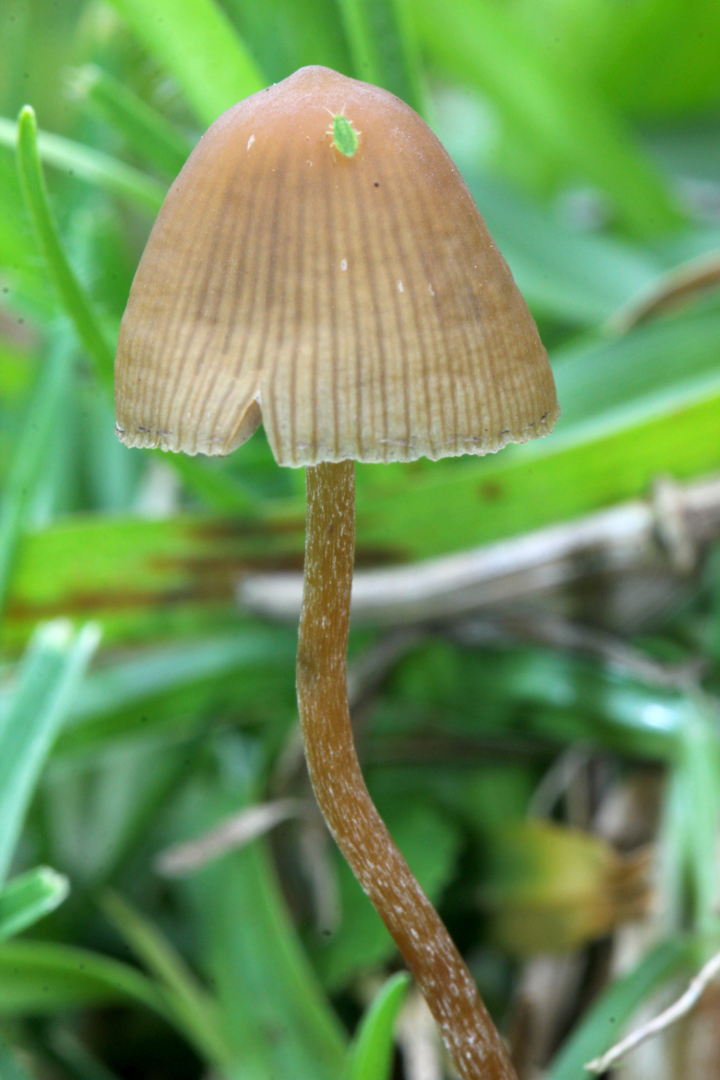 Psilocybe mexicana from Xico, Veracruz, Mexico. 9-19-12.